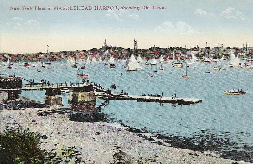 New York Fleet in Marblehead Harbor, showing Old Town; from a 1908 postcard. Taken at the Eastern Yacht Club, this photograph records the New York Yacht Club annual cruise.